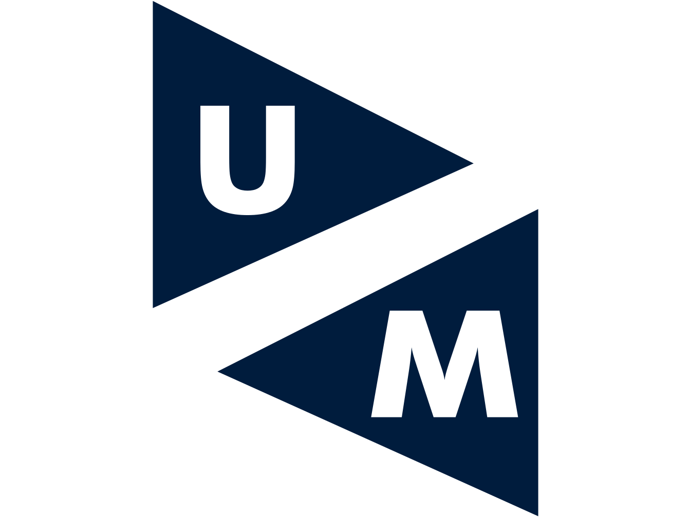 University of Maastricht logo. For more information see link to original file.